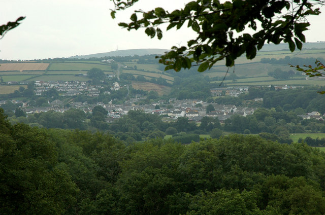 Newcastle Emlyn Newcastle Emlyn seen from Adpar, to the north.